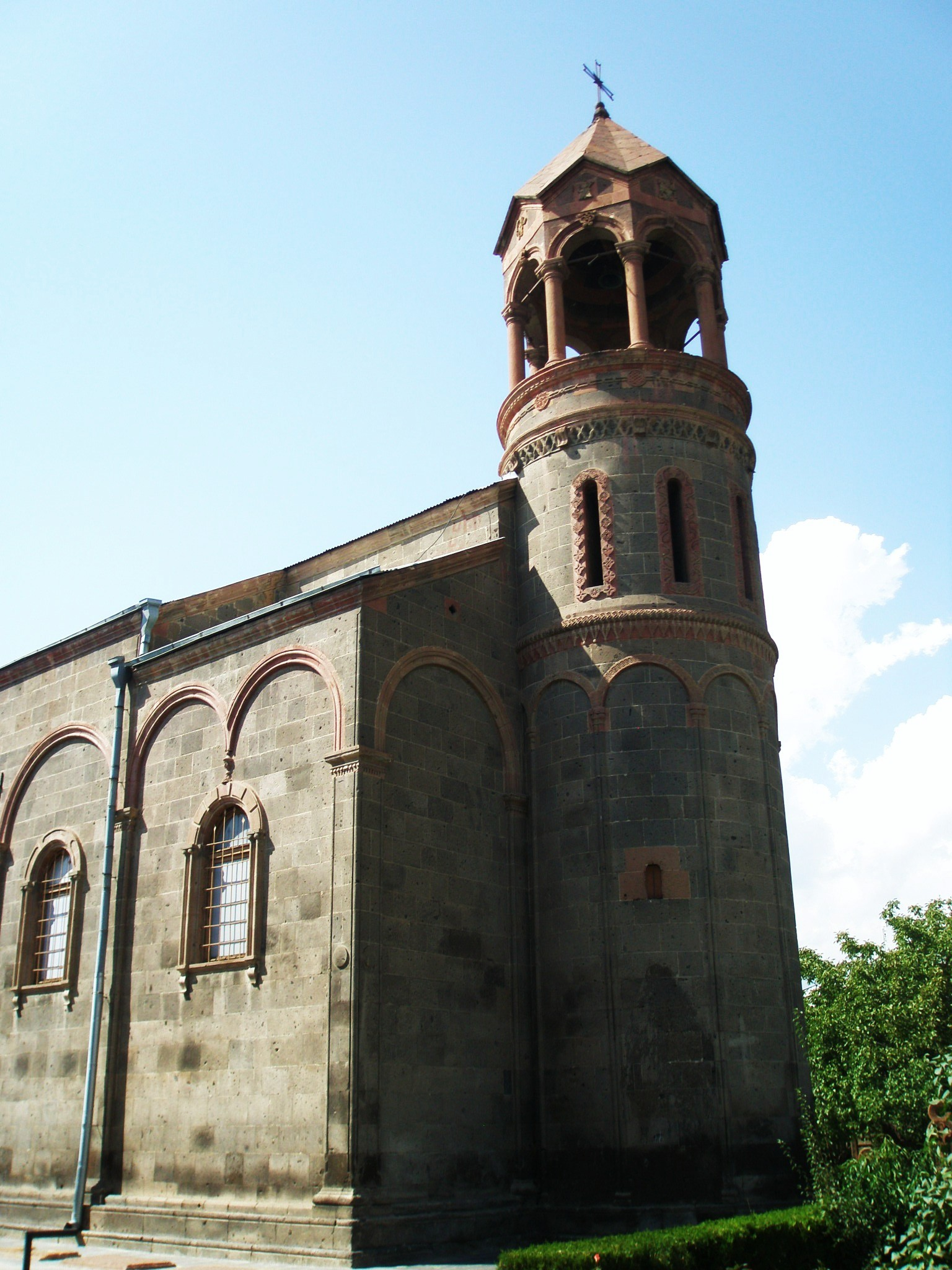 Church of Saint Mesrob Mashtots